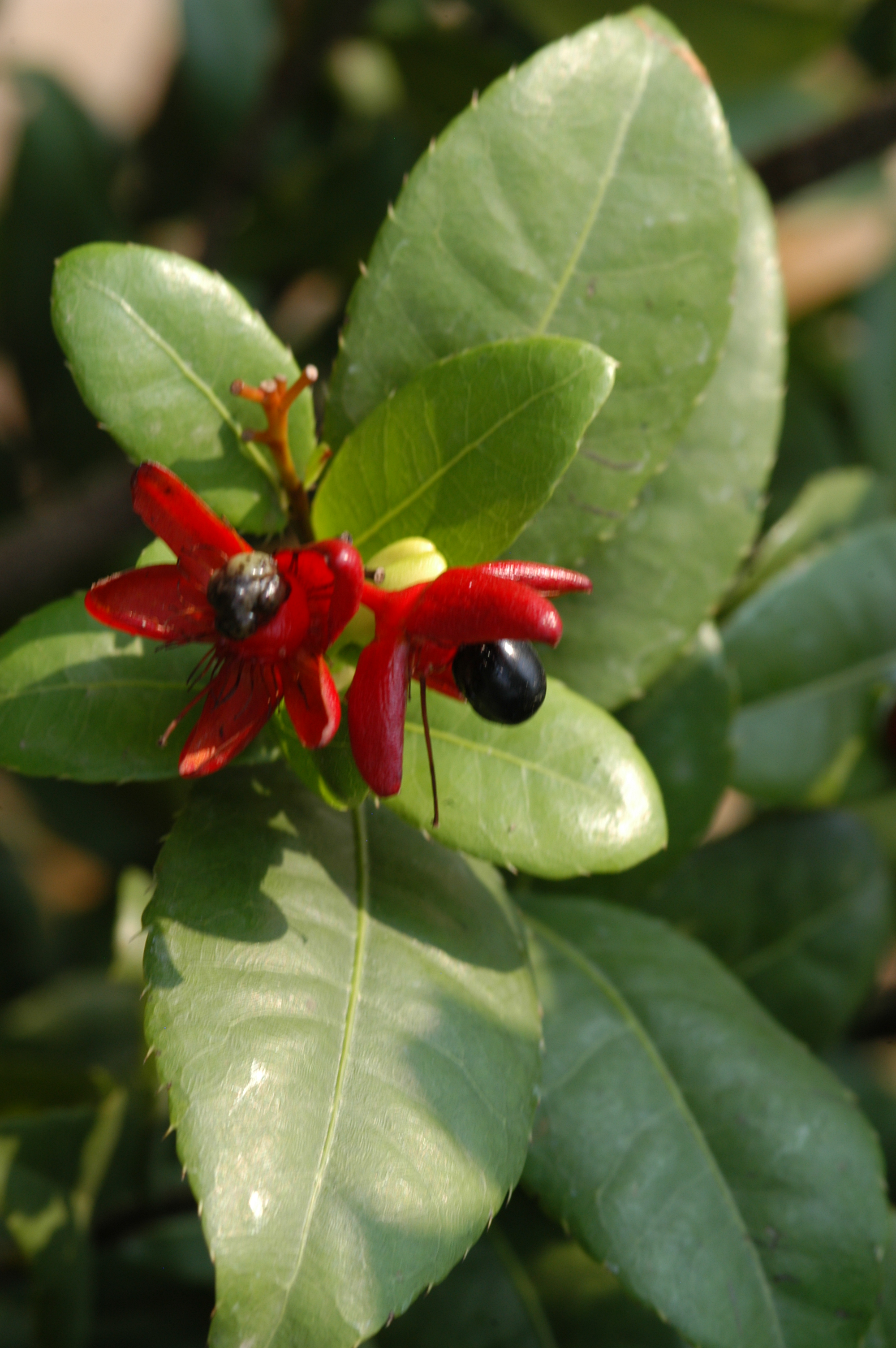 Ochna kirkii fruits